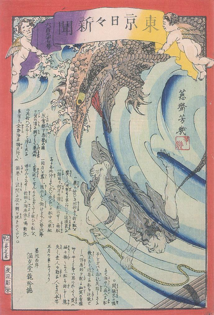 A cryptid of Japan,鰐魚（Gakugyo）